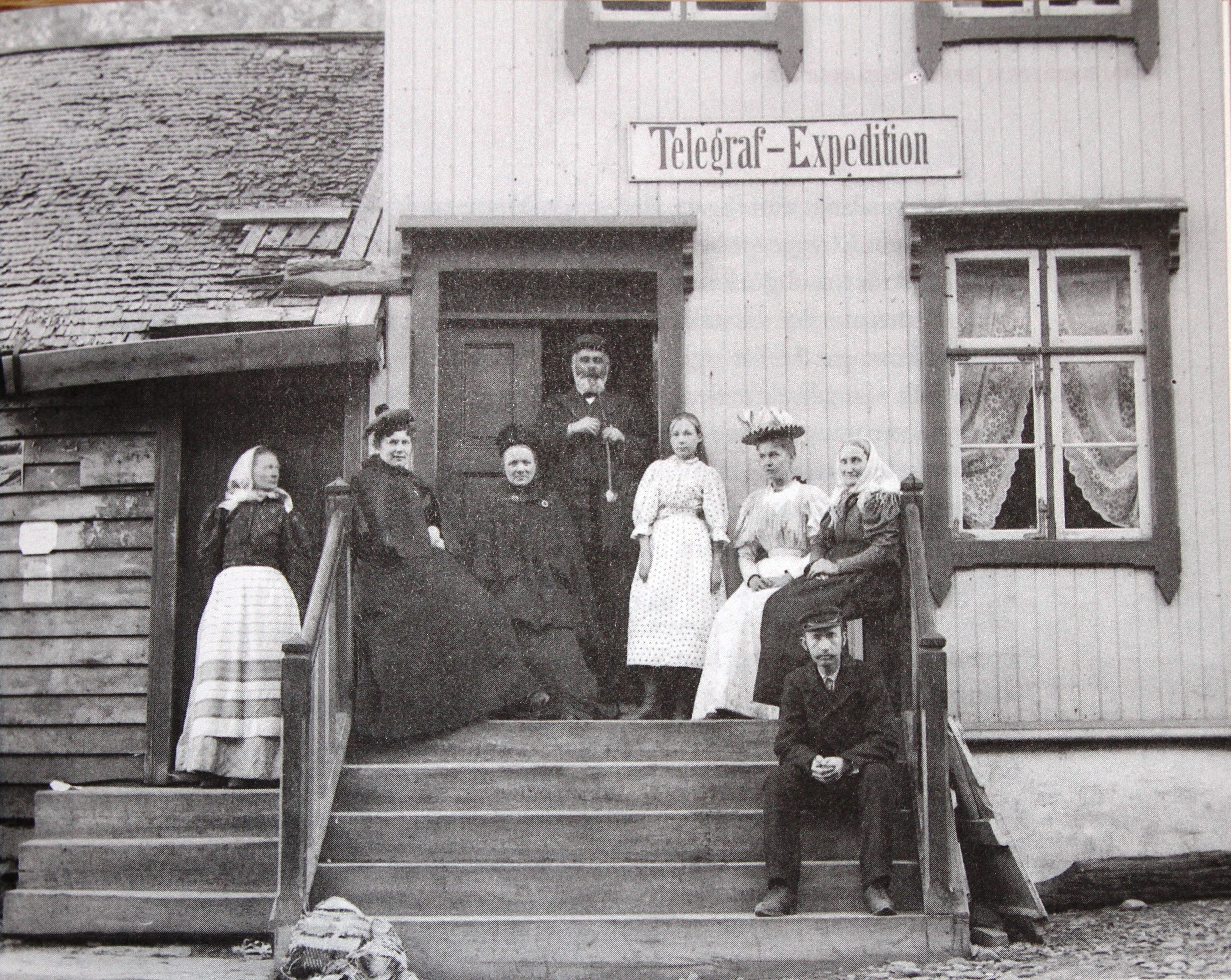 Finnkongkeila telegraph station in Tana Fjord, Finnmark, 1890s